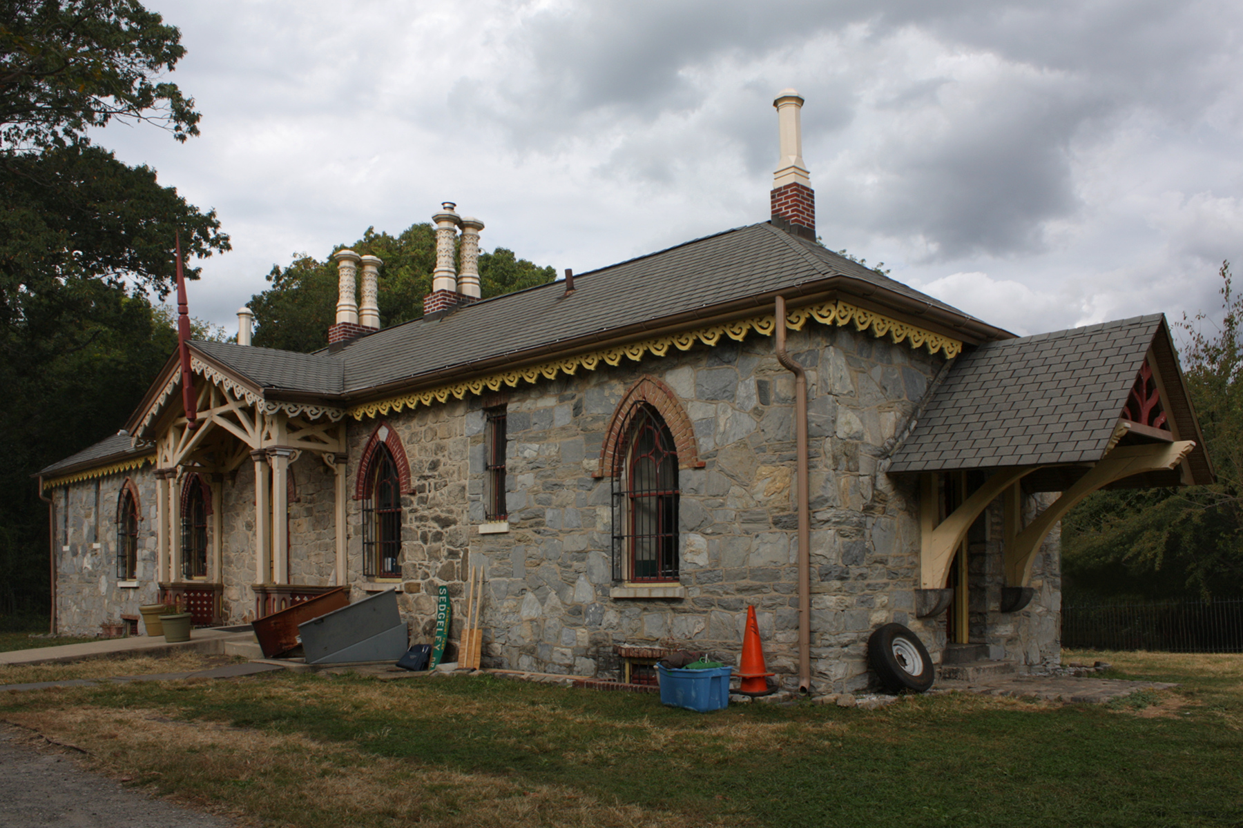 Porter's House, Sedgeley Mansion, Fairmount Park, Philadelphia, Pennsylvania